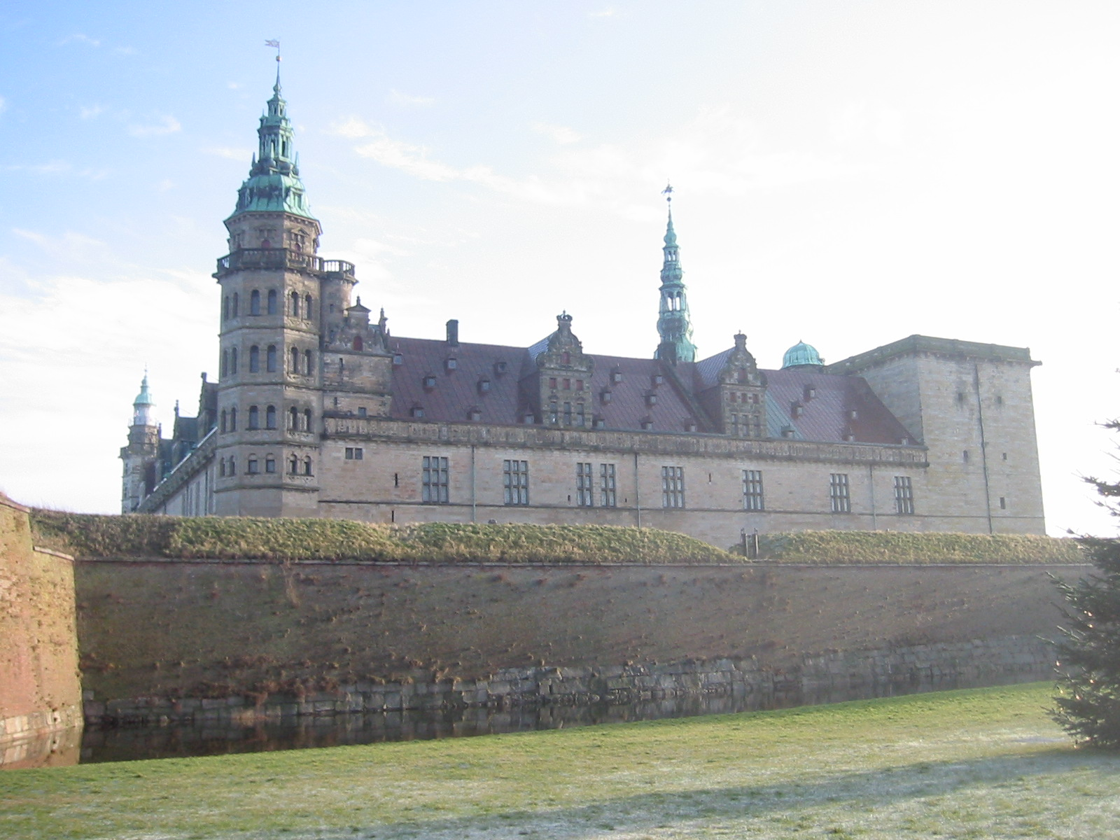 Kronborg at Helsinore, Denmark.